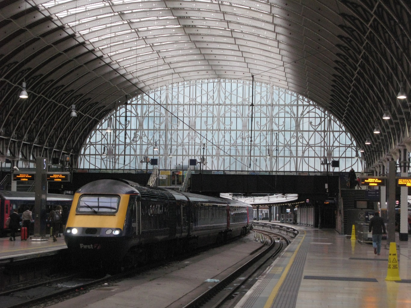 A Great Western Railway from Swansea, with power car 43098 on the front, arrives beneath Brunel and Wyatt's magnificent train shed at London Paddington station.